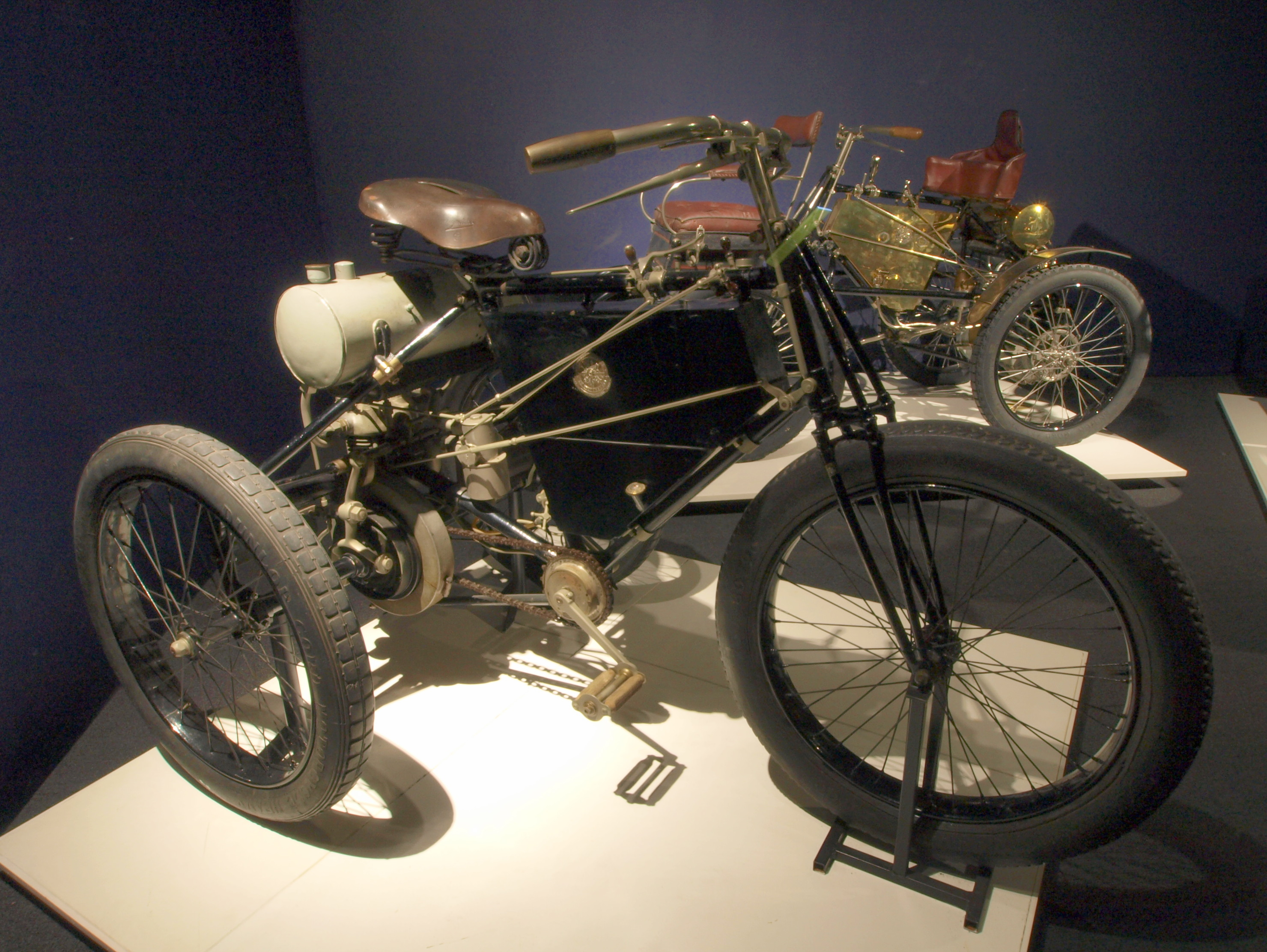 Photographed at the Louwman museum, The Netherlands.